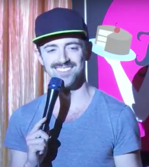 Matteo Lane performing comedy at Miz Stefani's House Live May the 4th with music from Jessica Carvo and Seon Gomez.